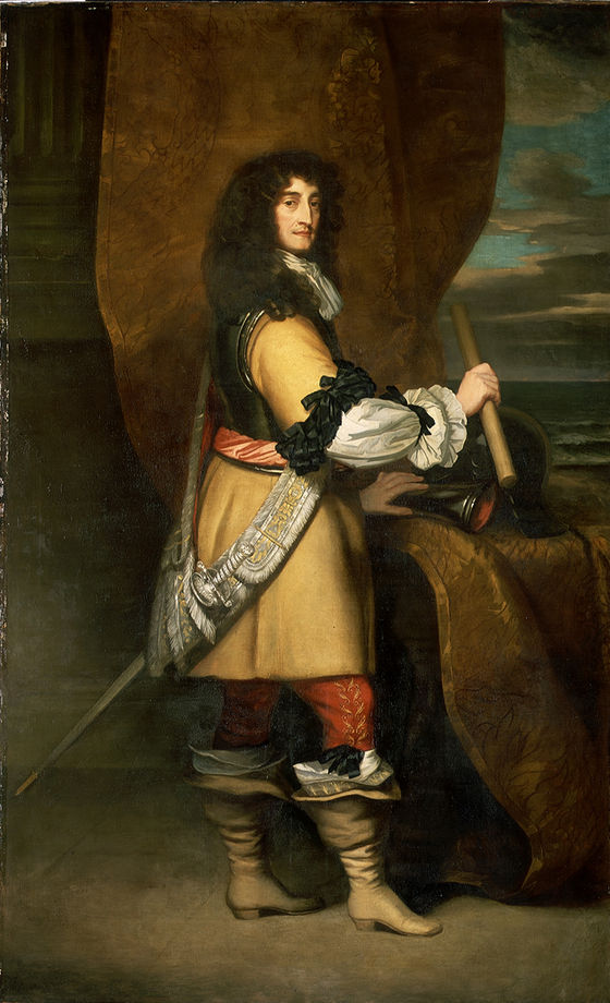 "Prince Rupert (1619-1682), 1st Duke of Cumberland and Count Palatine of the Rhine"